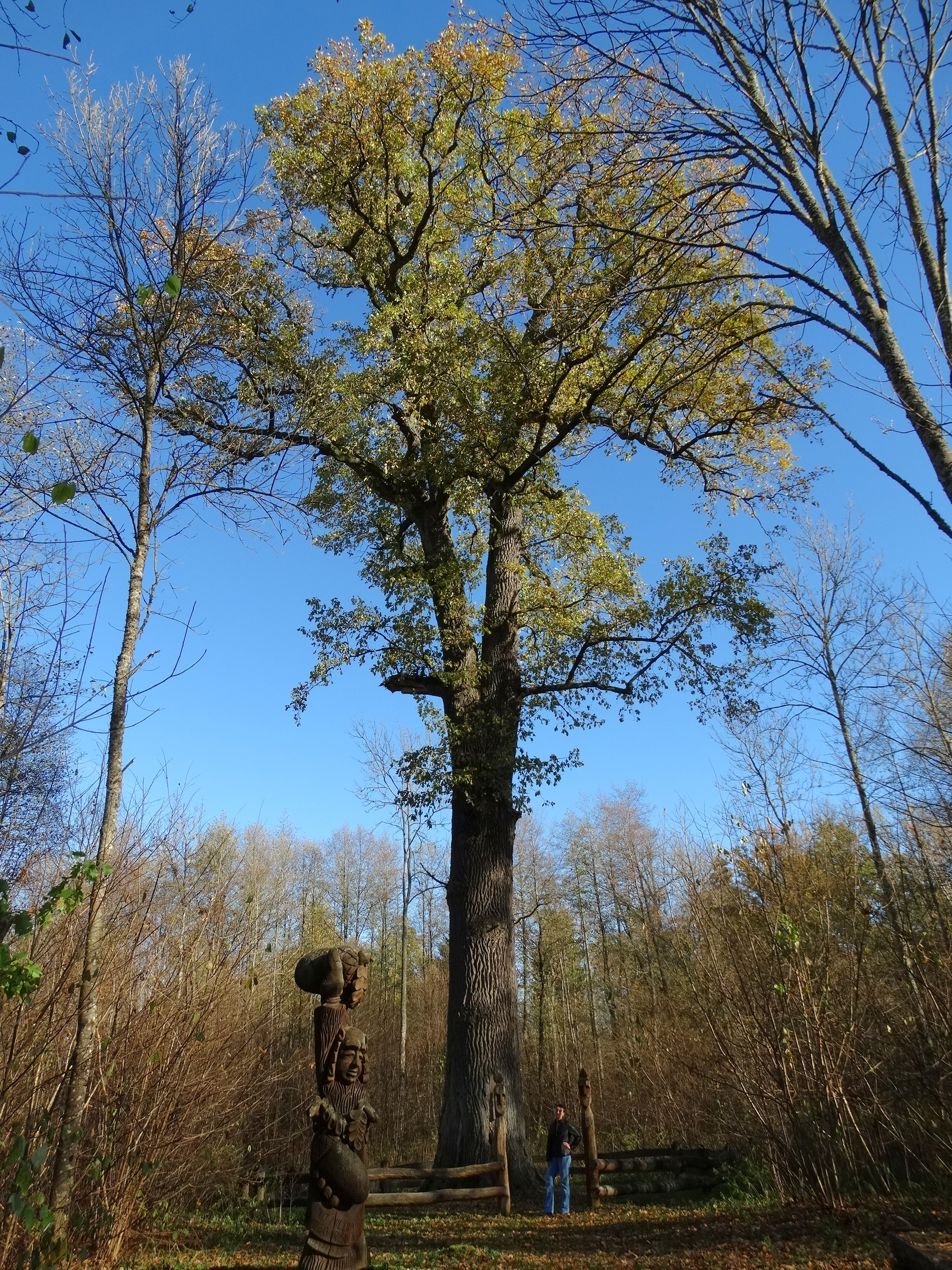 Oak in Gojus Forest, Prienai district, Lithuania